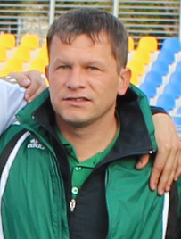 Vladimir Skripka